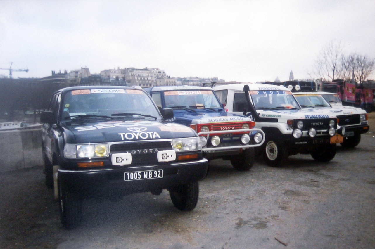 Cars of the rally parked in Paris